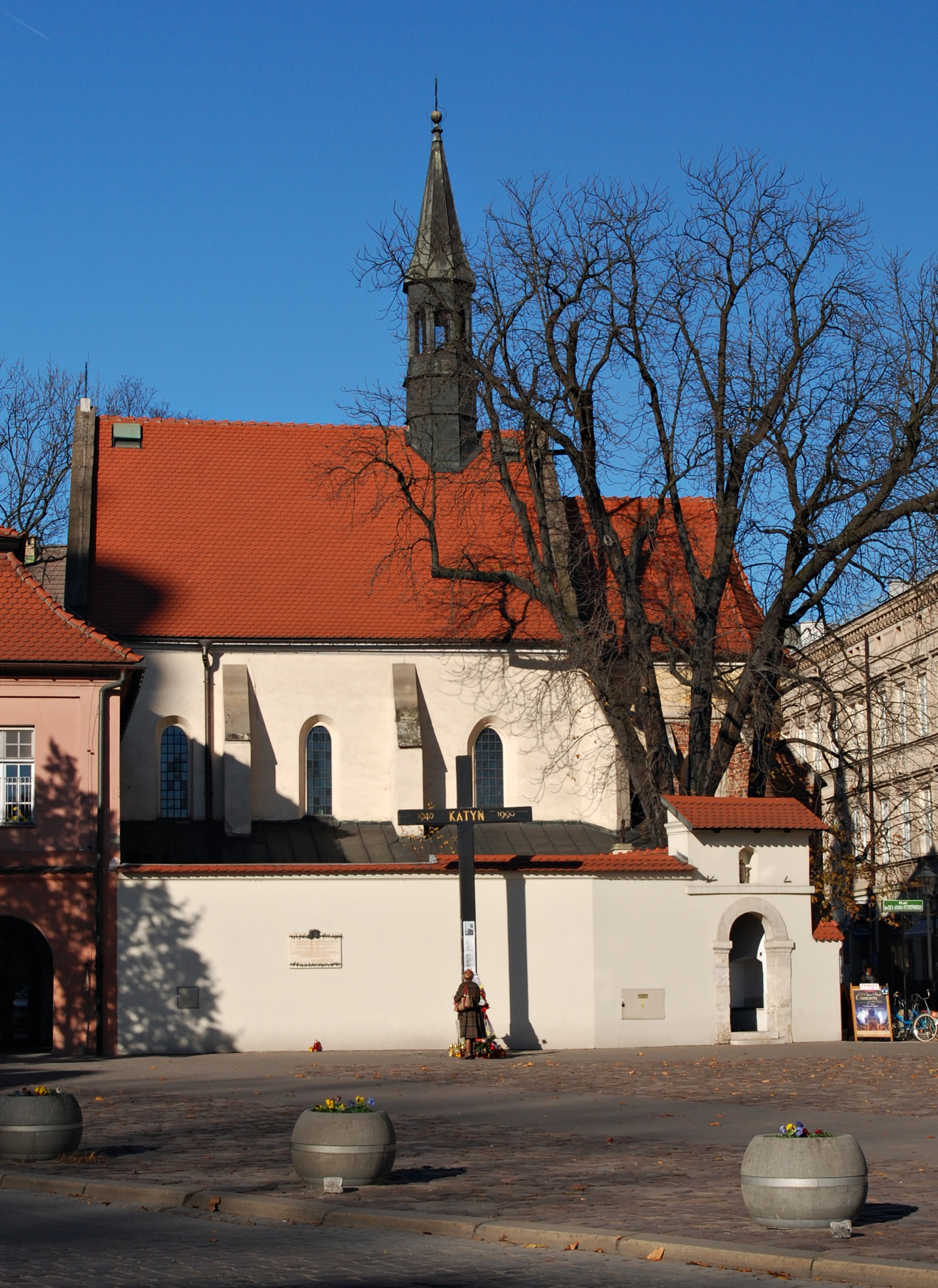 St. Giles' church in Kraków, Poland